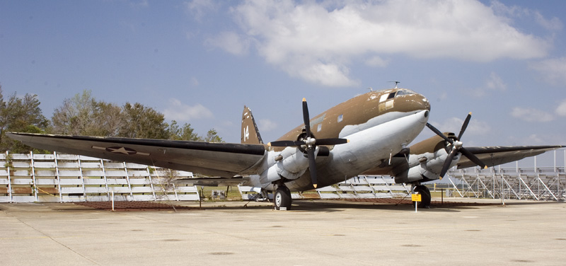 A U.S. Navy Curtiss R5C-1 Commando (BuNo 39611) at the National Museum of Naval Aviation at Pensacola, Florida (USA). This aircraft was ordered as a USAAF C-46A (s/n 43-47047, c/n 118/CK95) and was accepted by the U.S. Navy on 17 November 1944. It then entered squadron service with Headquarters Squadron (HEDRON) of Marine Air Group 35, where it served until 1946. Subsequently, the aircraft flew with Marine Transport Squadron VMR-253 between June and September 1946. After spending the remainder of 1946 in an aircraft pool, the aircraft underwent overhaul in 1947 and was then placed in aircraft pools, first at Marine Corps Air Station Cherry Point, North Carolina (USA), and then Naval Air Station Columbus, Ohio. Its service ended in 1948. (Text mostly USN)